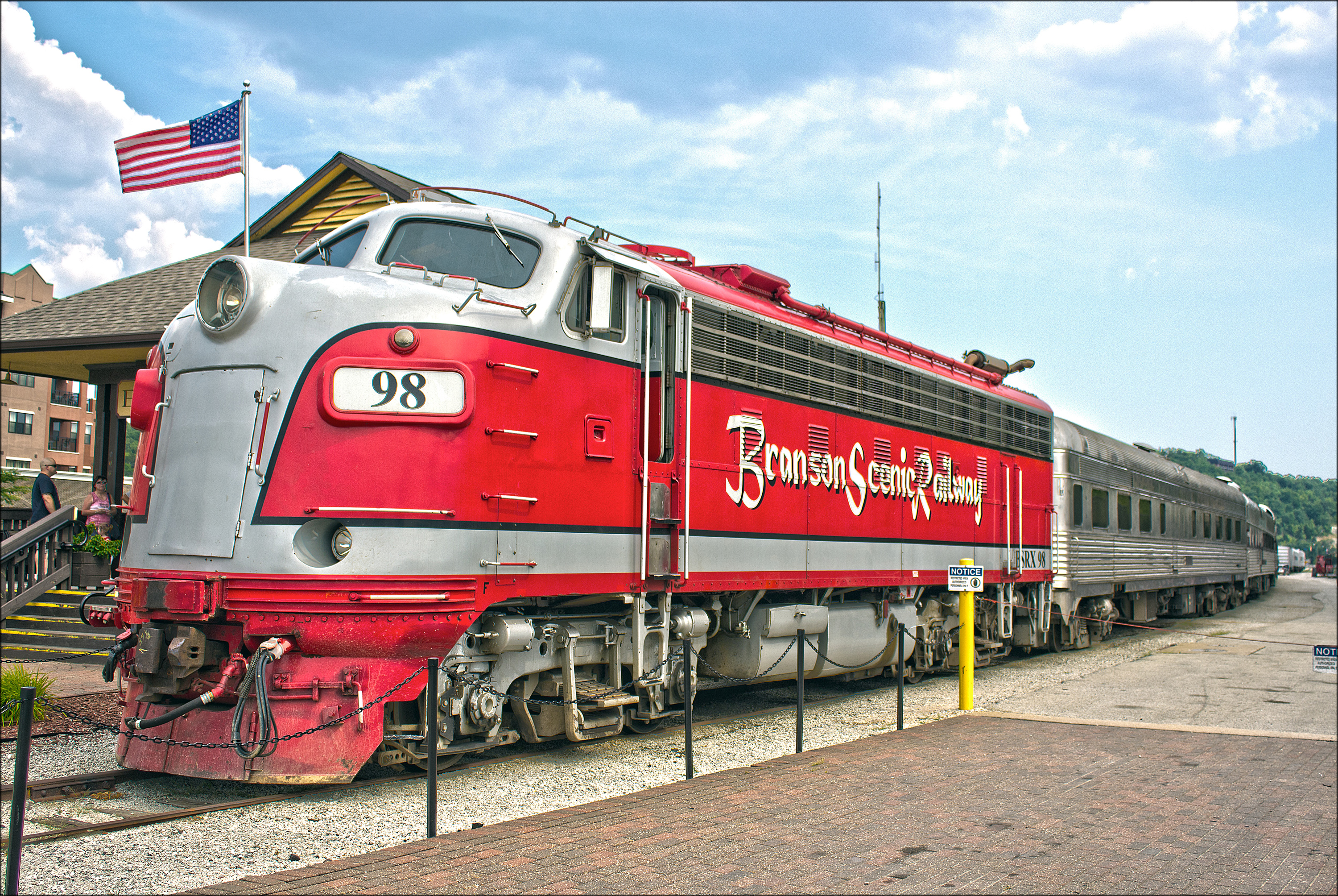 The Branson Scenic Railway's EMD F9PH sits ready as another round of passengers prepare to board for an excursion along the White River Route.